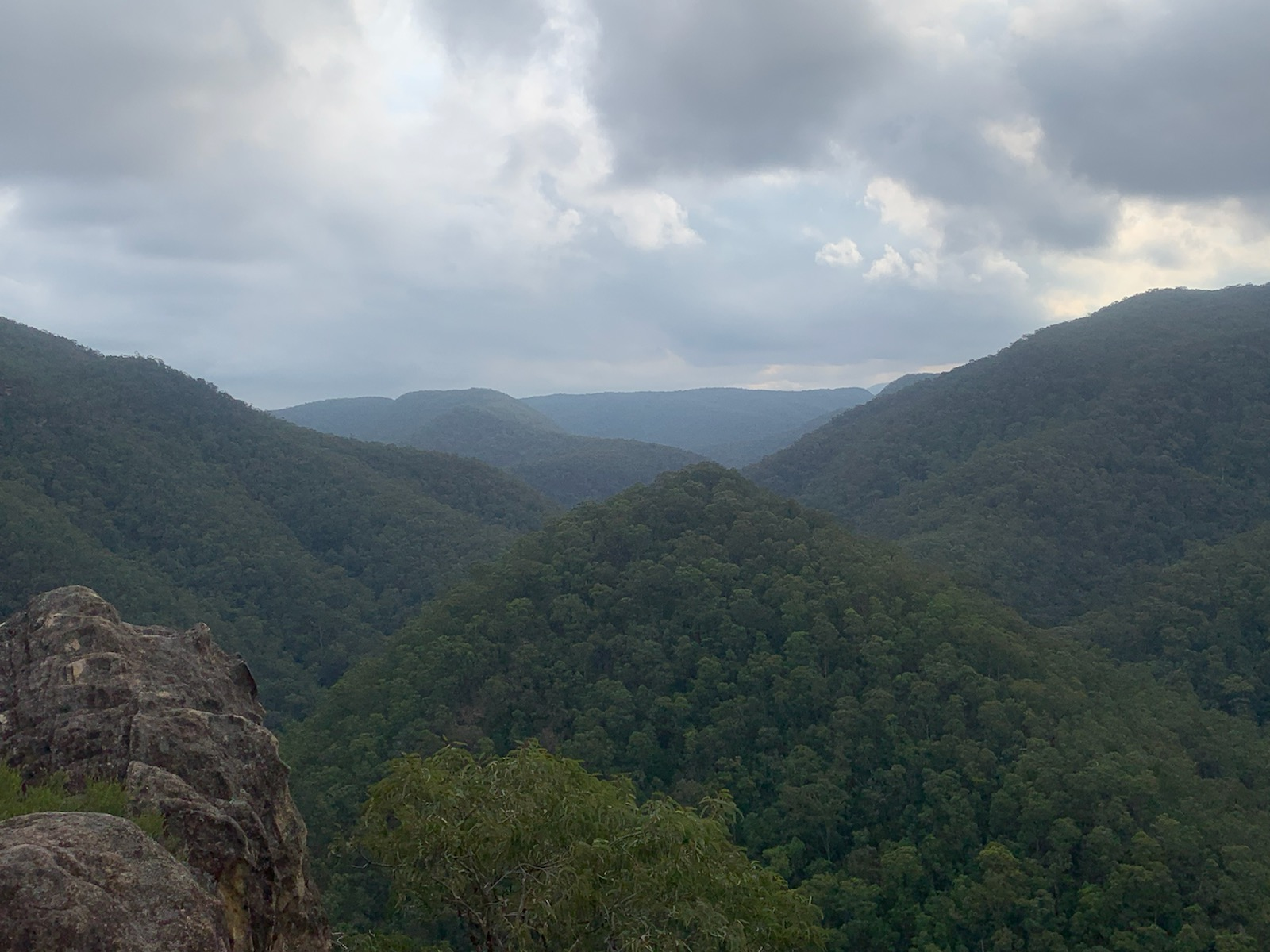 A photograph of the view at Cabbage Tree Lookout, a street lookout located in the semi-rural suburb of Grose Vale, NSW in the Hawkesbury area.